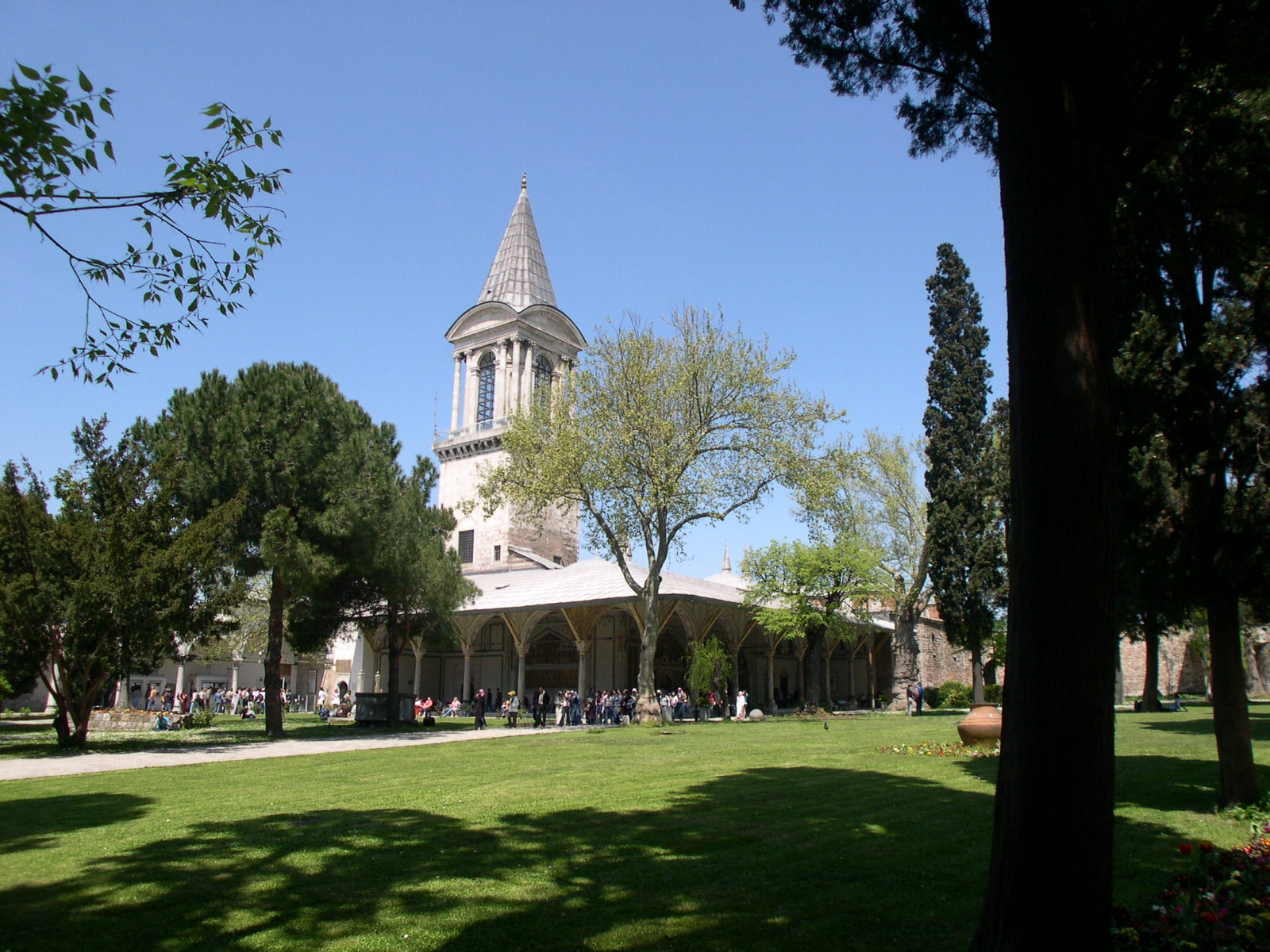 The courtyard of Topkapi_Palace